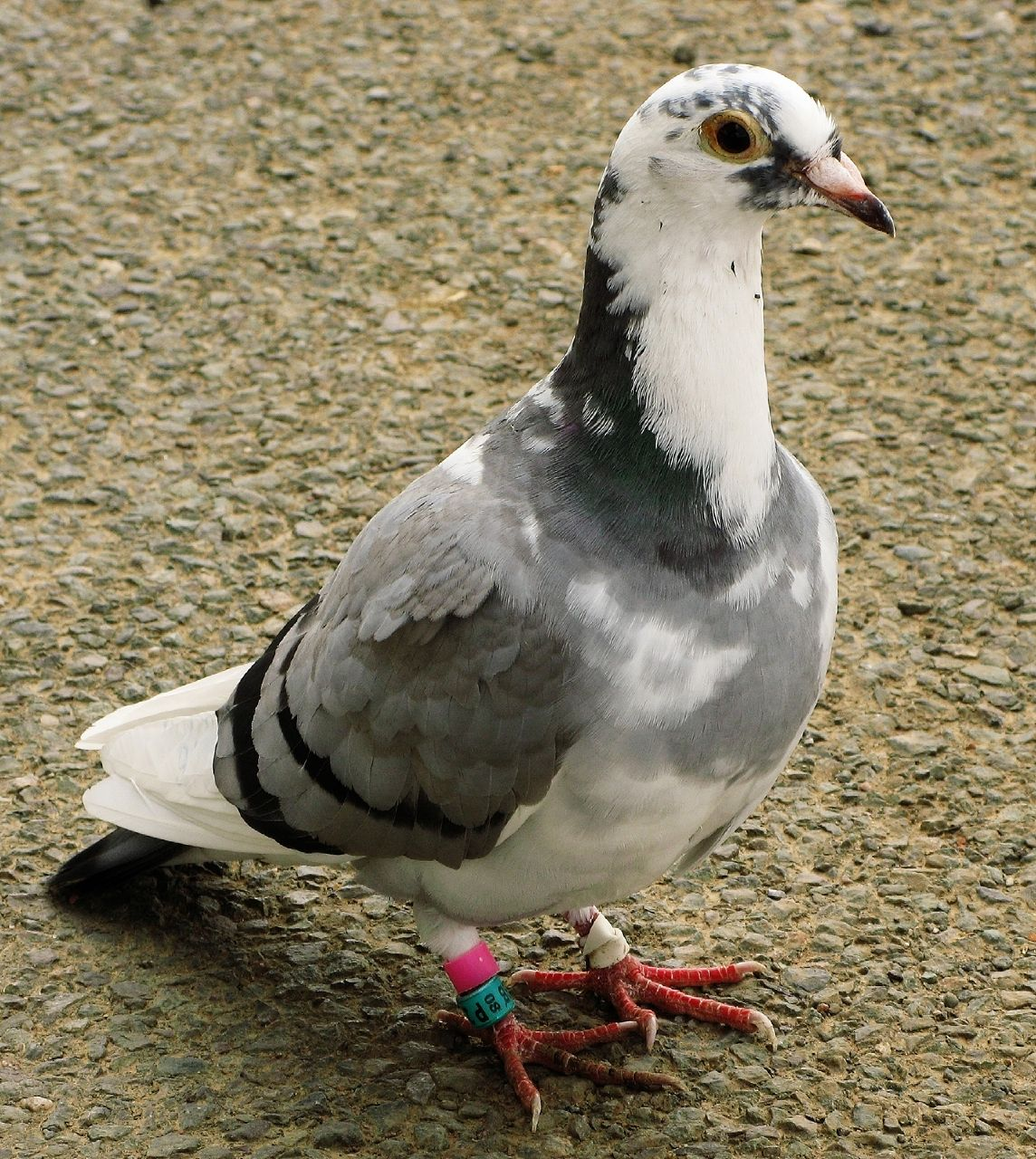 Racing pigeon photographed near Barkby, Leicestershire